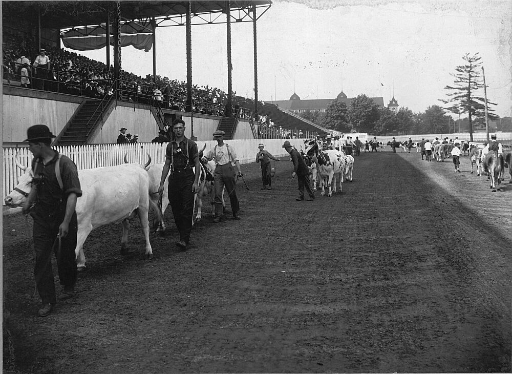 Western Fair, London Ontario Canada, Race track , Crystal Palace in the background.